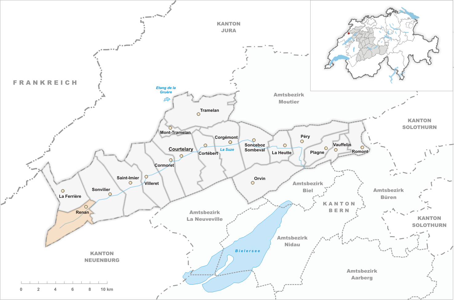 Municipality Renan